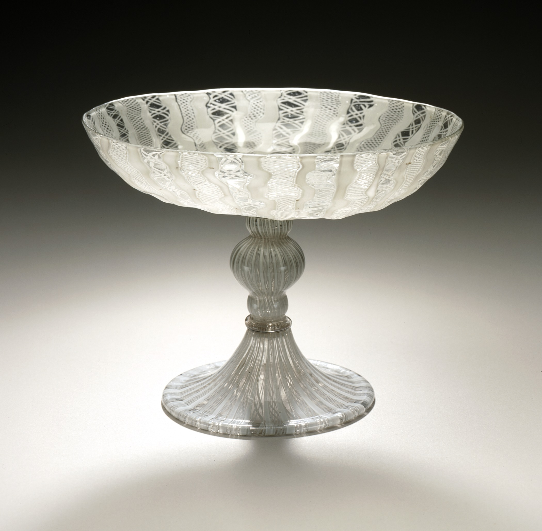 Italy, probably Venice, 17th century Furnishings; Serviceware Glass Height: 4 3/4 in. (12.07 cm); Diameter of foot: 3 1/2 in. (8.89 cm); Diameter of rim: 6 1/2 in. (16.51 cm) Gift of Mr. Hans Cohn (M.82.45.4) Decorative Arts and Design Currently on public view: Ahmanson Building, floor 3